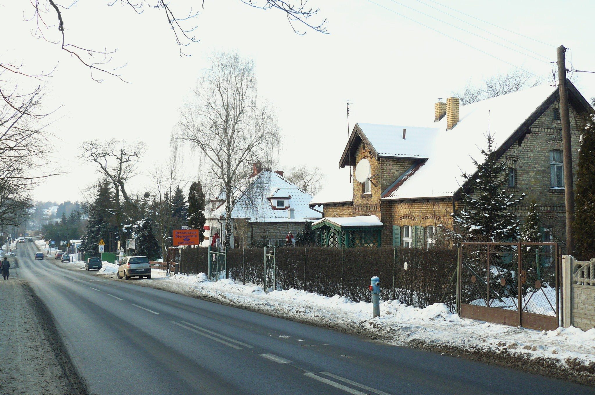 Kiekrz - District of Poznan - main street.